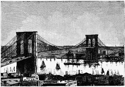 Brooklyn Bridge 1890 from Harper's